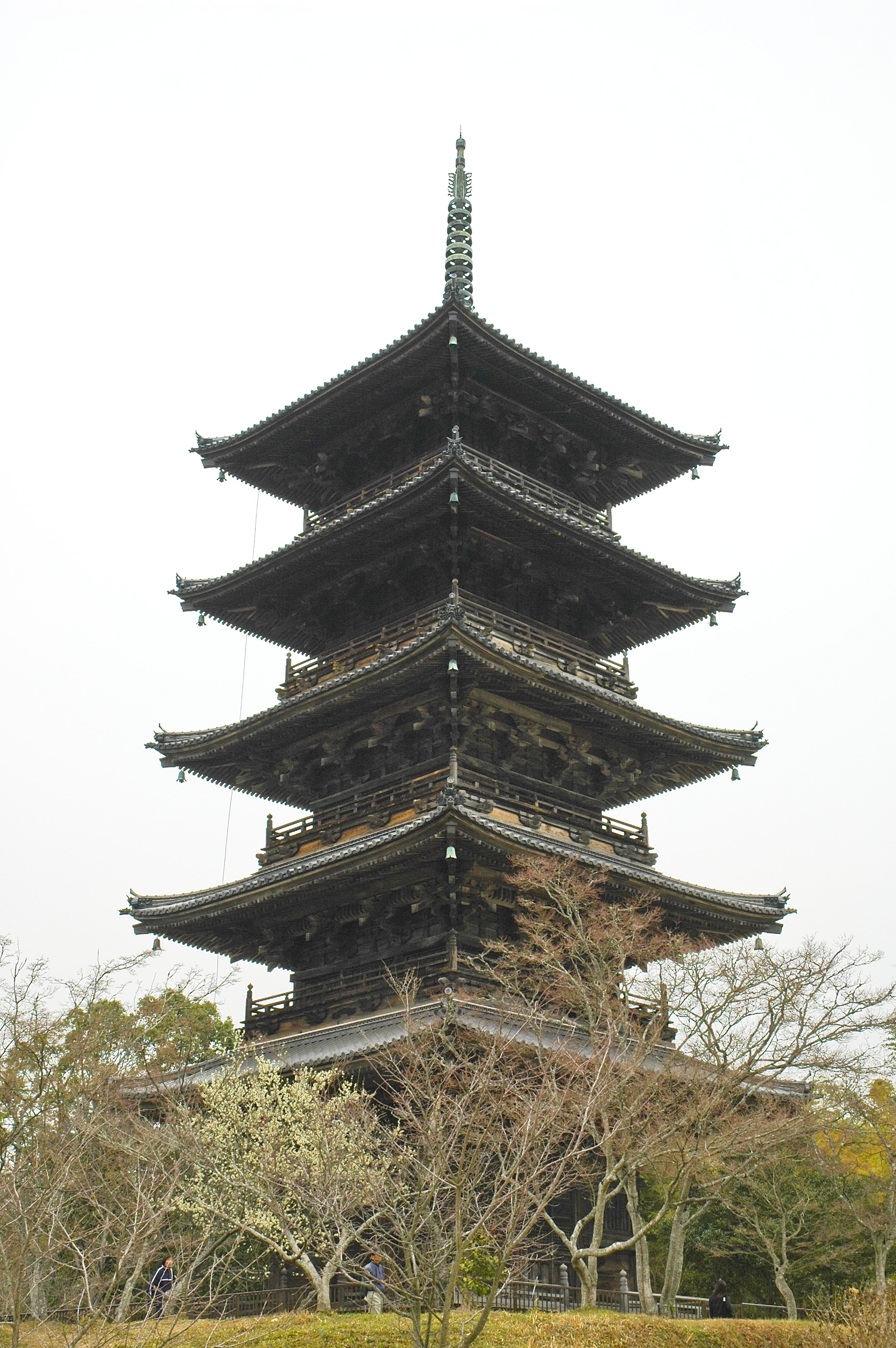 Five-Storied Pagoda (Japan's national important cultural property), Bitchū Kokubun-ji temple, Sōja City, Okayama, Japan